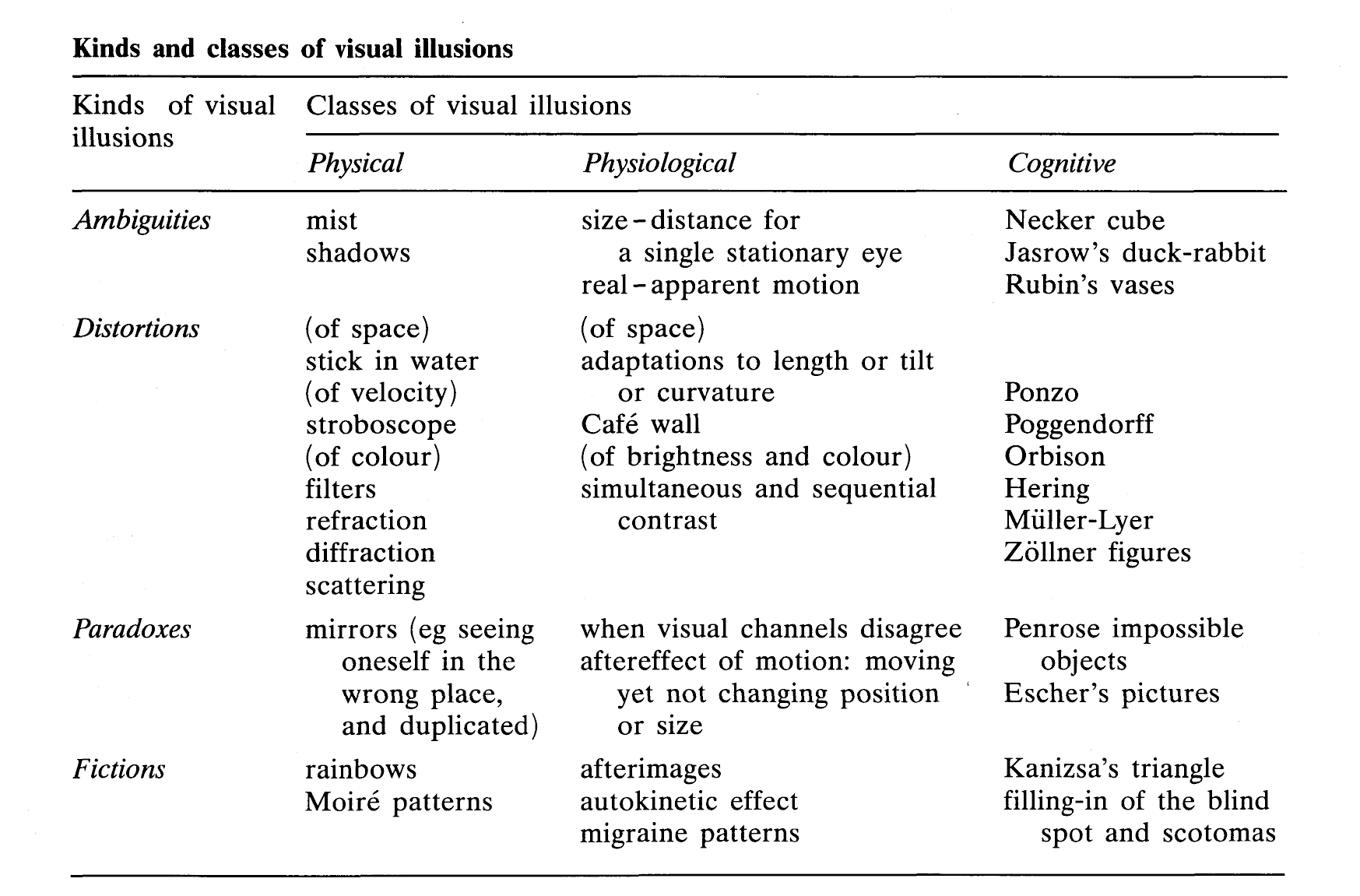 Table from the Editorial "Putting illusions in their place" by Richard Gregory, 1991